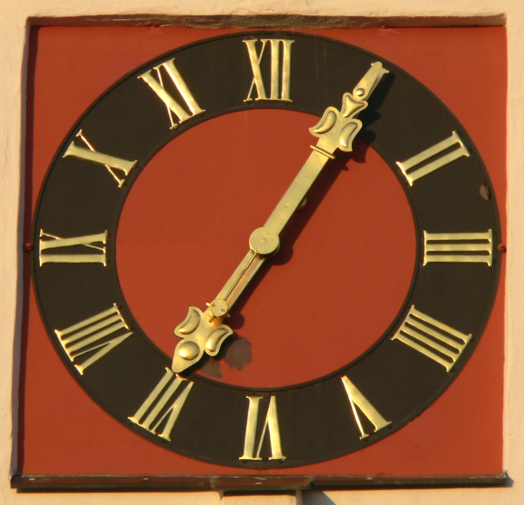 Biberach (Riss), Germany, Ulmer Tor